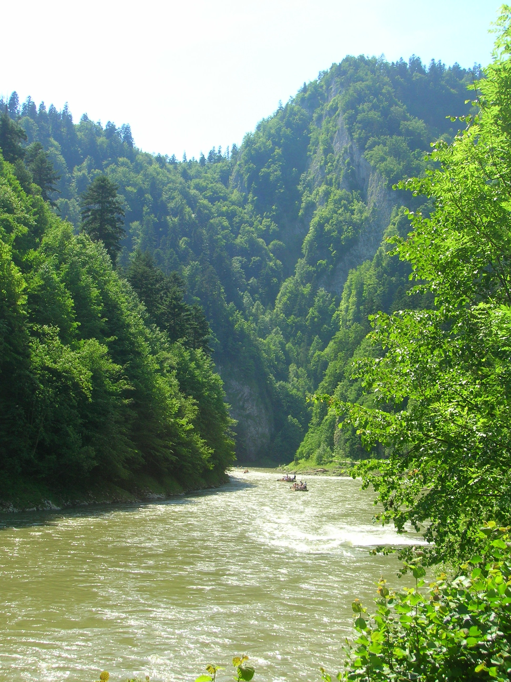 the Dunajec gorge through the Pieniny mountains